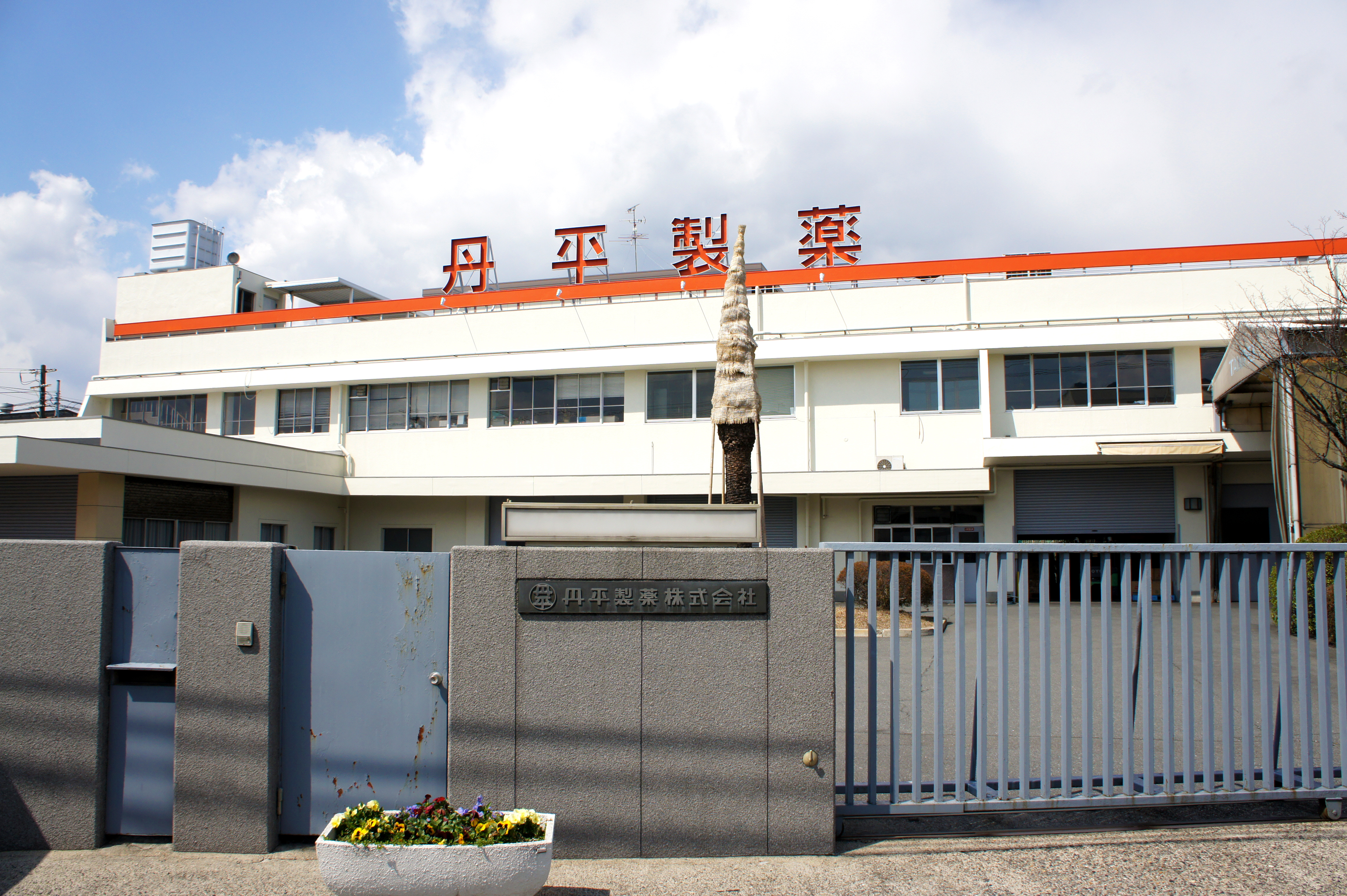 Tampei Pharmaceutical, 2-7-6 Shukunosho Ibaraki-City Osaka Japan.